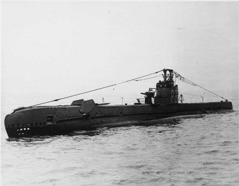 British S class HMSM SAHIB underway.